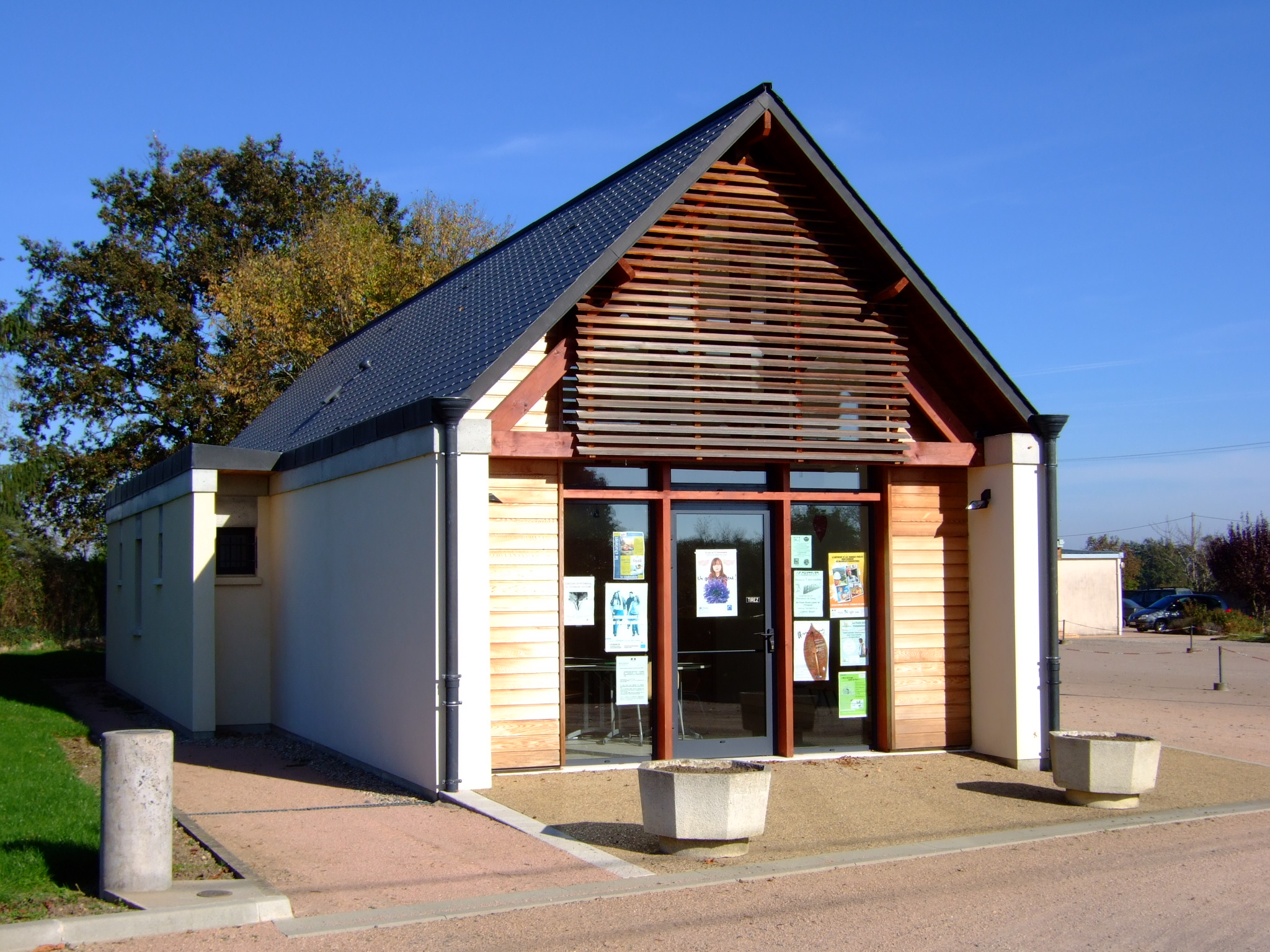 Town hall of Ardenais (France) - Non professional photo taken by myself.